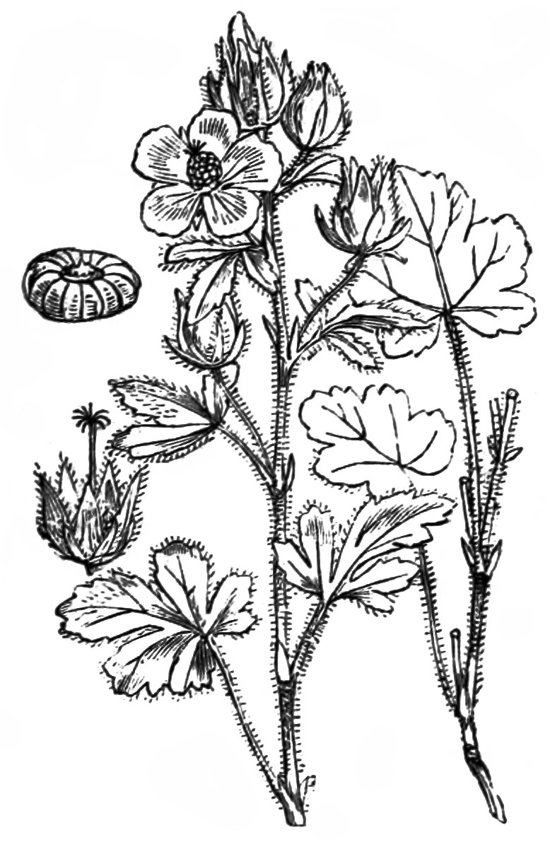 Althaea hirstuta, figure 198, page 46